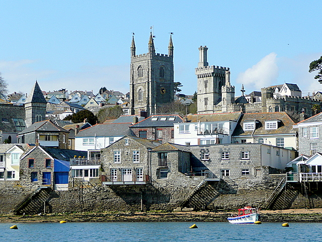 Fowey from the water, near to Fowey, Cornwall, Great Britain. Viewed from the Polruan ferry on its way back to Fowey on this fine spring afternoon.